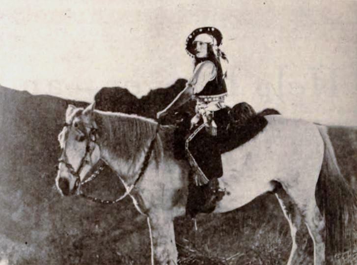 Still from the American film The Fire Cat (1921) with Edith Roberts, on page 46 of the January 22, 1921 Exhibitors Herald.